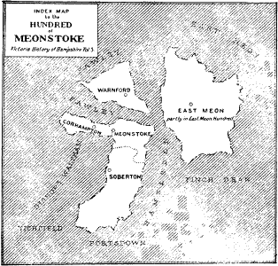 An index map showing the Hundred of Meonstoke. The Hundred of Meonstoke is highlighted in white.